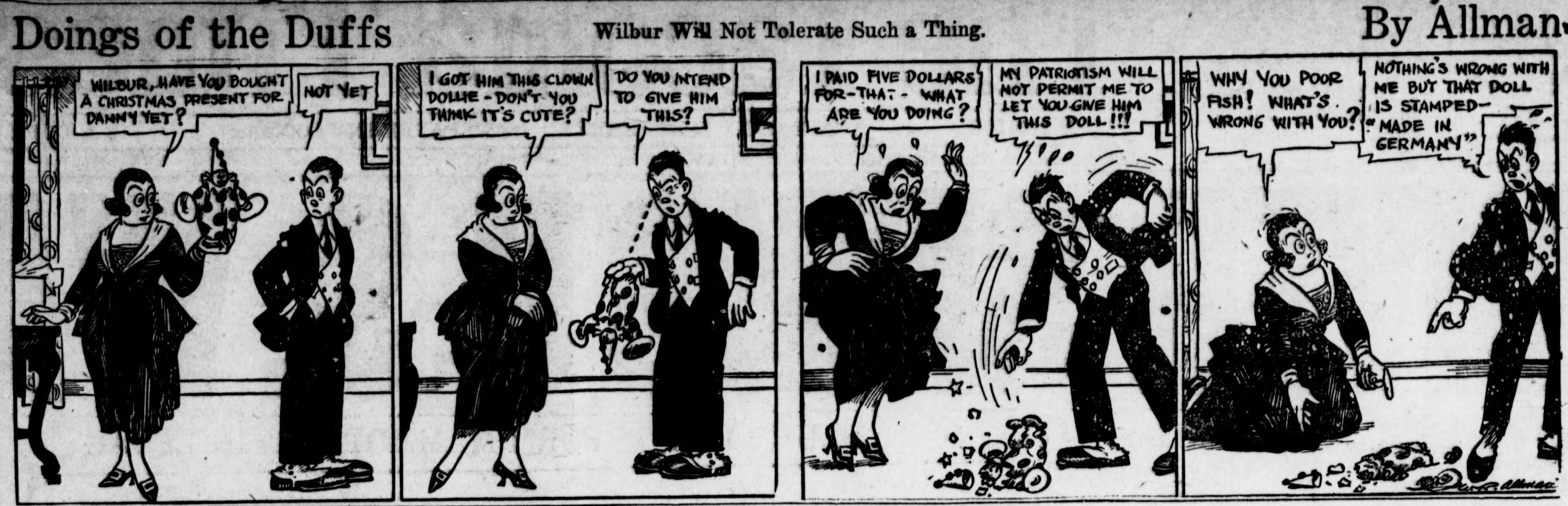 The Tacoma times., December 08, 1917 page 2 - Doings of the Duffs (1914–1931) originally by Walter Allman (US). This cartoon seems to showcase anti-German sentiment.